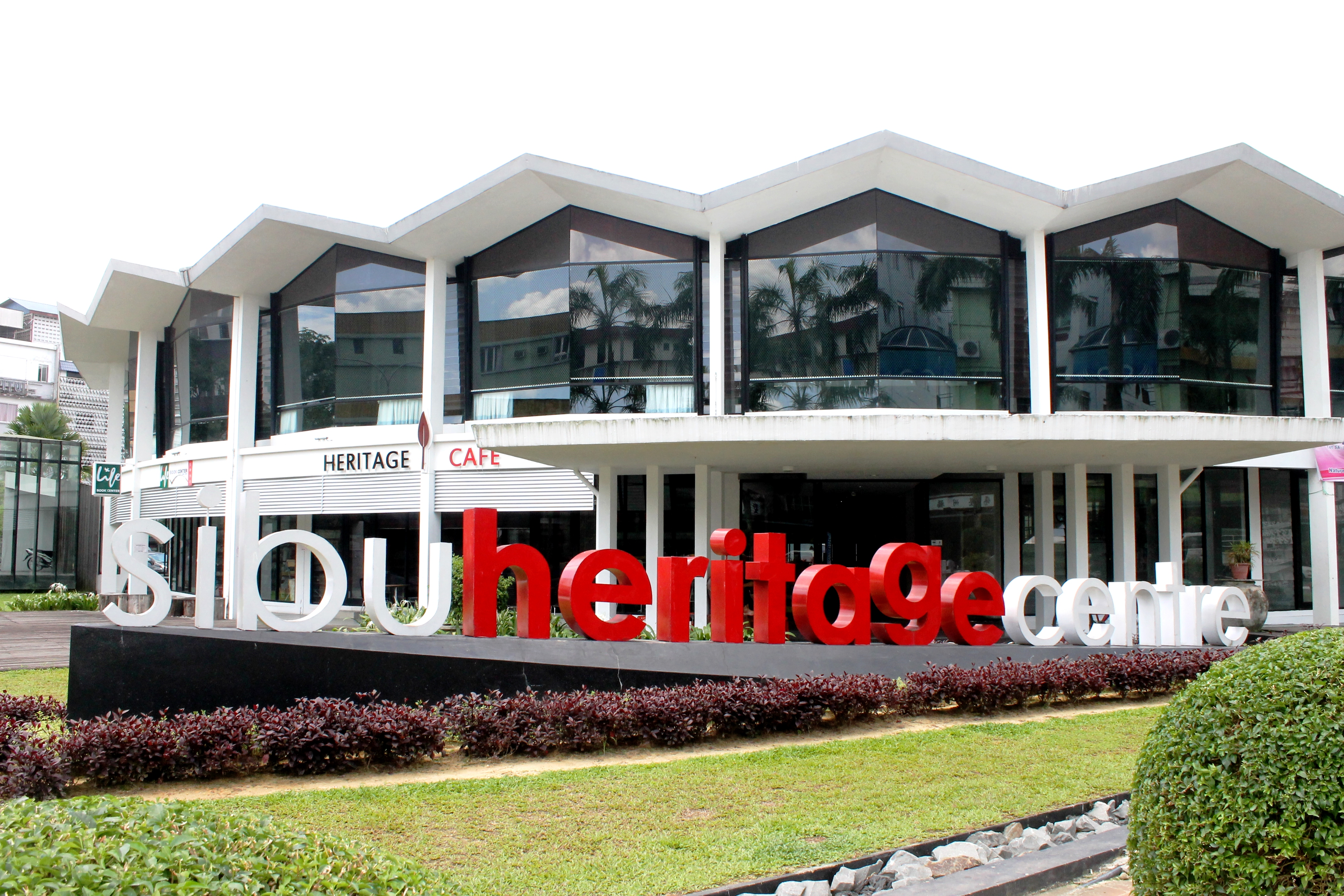 Sibu Heritage Centre which is located inside the old Sibu town hall.